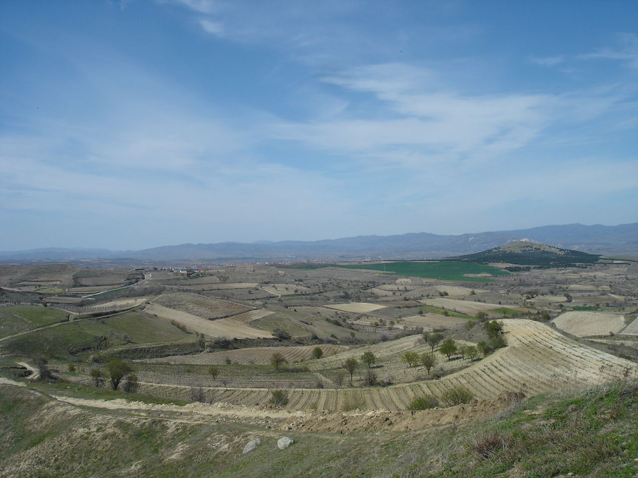 Landscape of Tikvesh region near Negotino, Macedonia